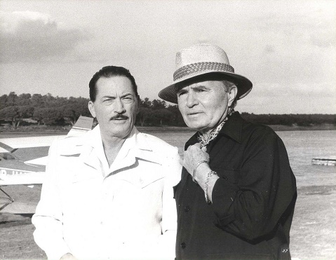 Promotional photo of Gregory Peck and James Mason in the American film The Boys from Brazil (1978).